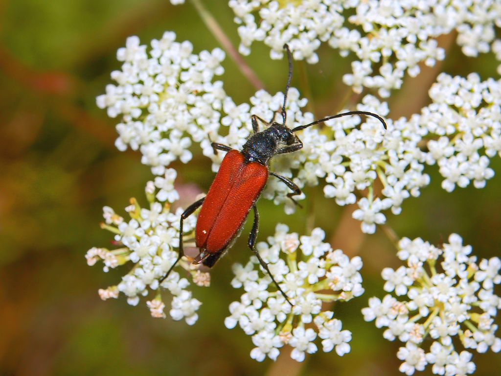 Anastrangalia sanguinolente